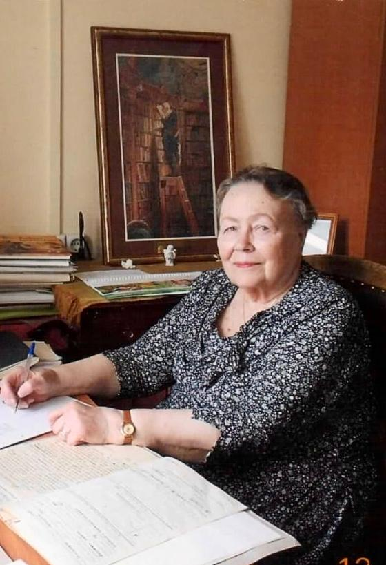 Ludmila Koval at work